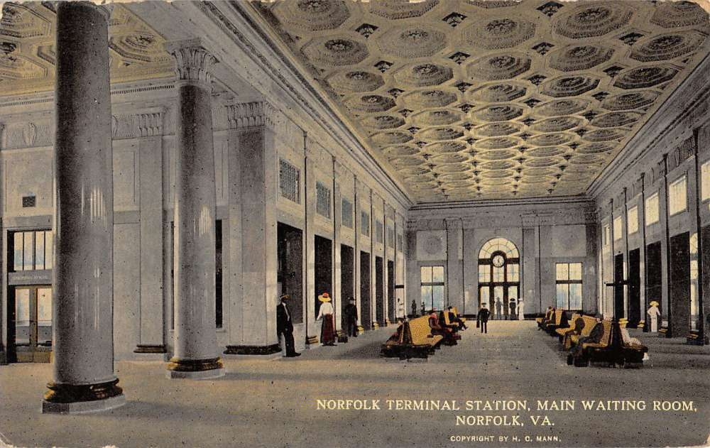 Early divided back postcard of Norfolk Terminal Station